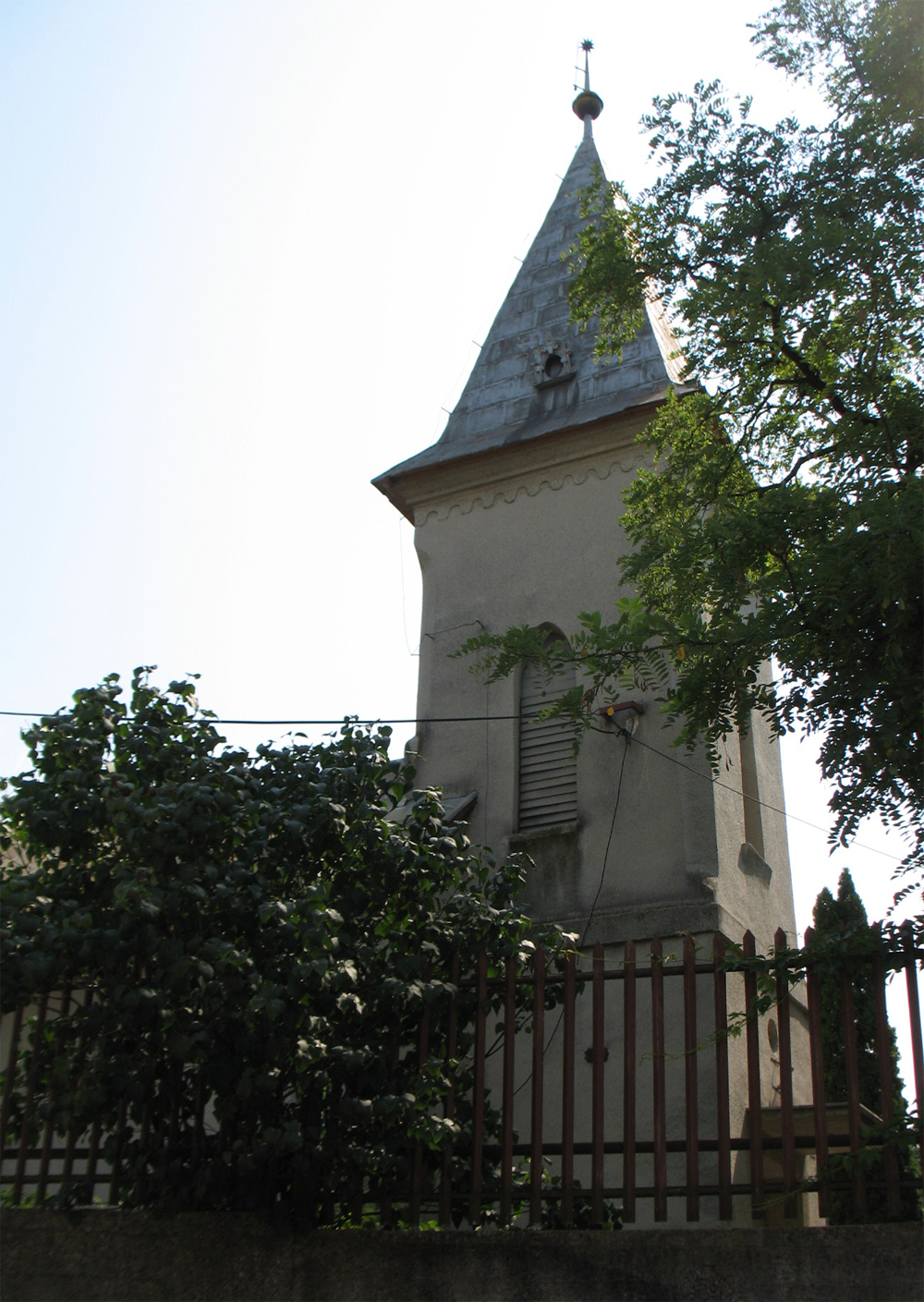 Evang. Church of Ždaňa